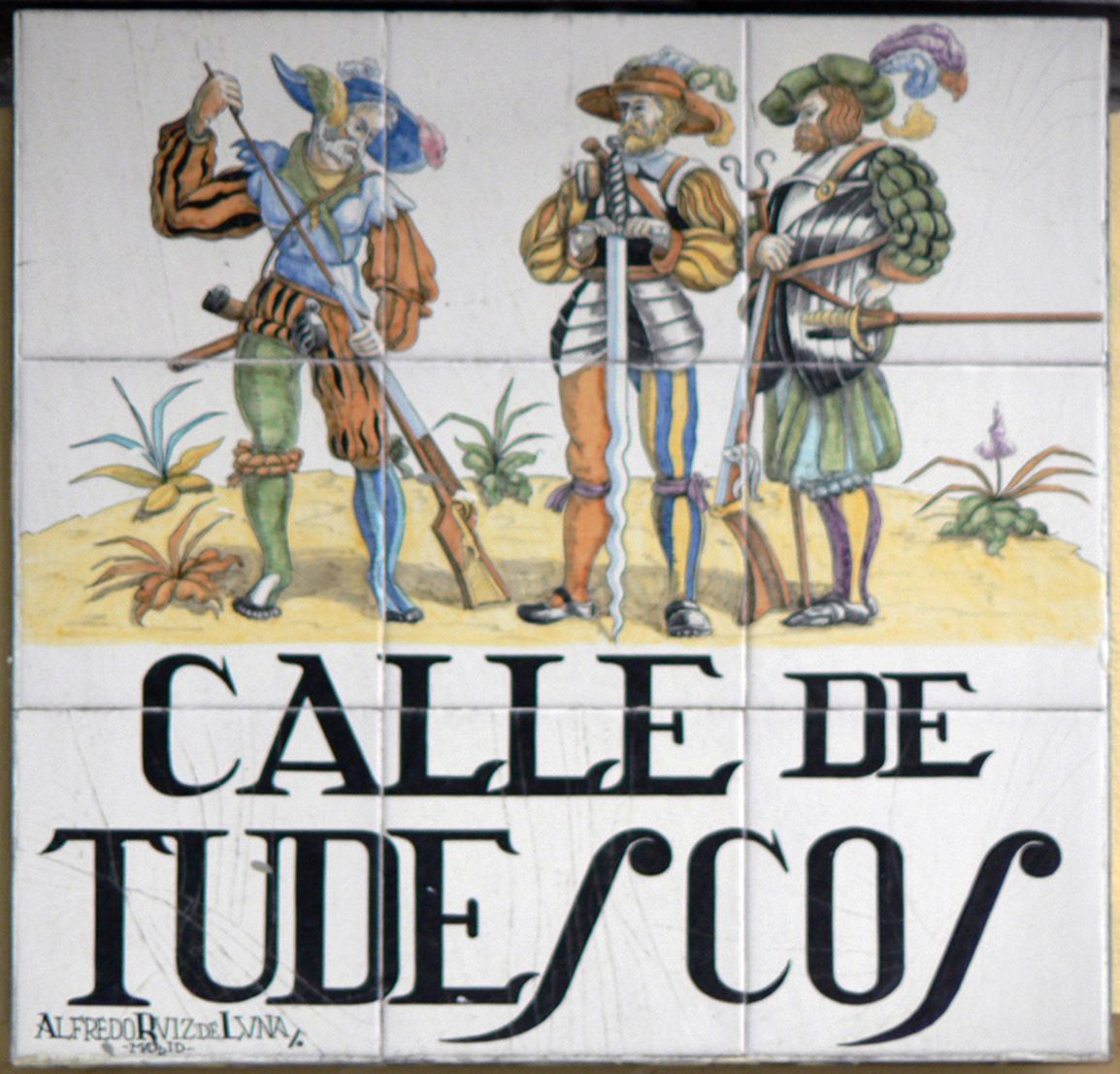 Sign of Calle de Tudescos (street, Centro district) in Madrid (Spain).